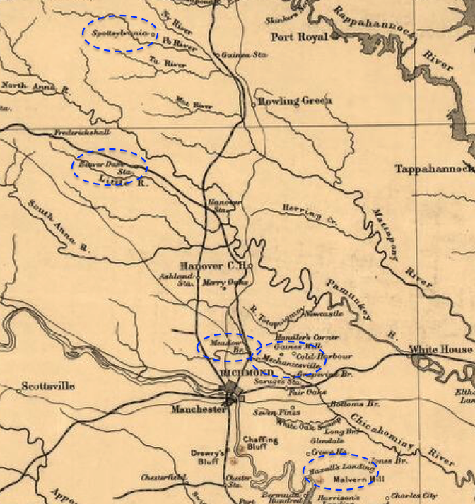 This map shows the area between Richmond and Spotsylvania in Virginia with a few circles around a few of the points cited in the diary of Major John W. Phillips of the 18th Pennsylvania Cavalry.